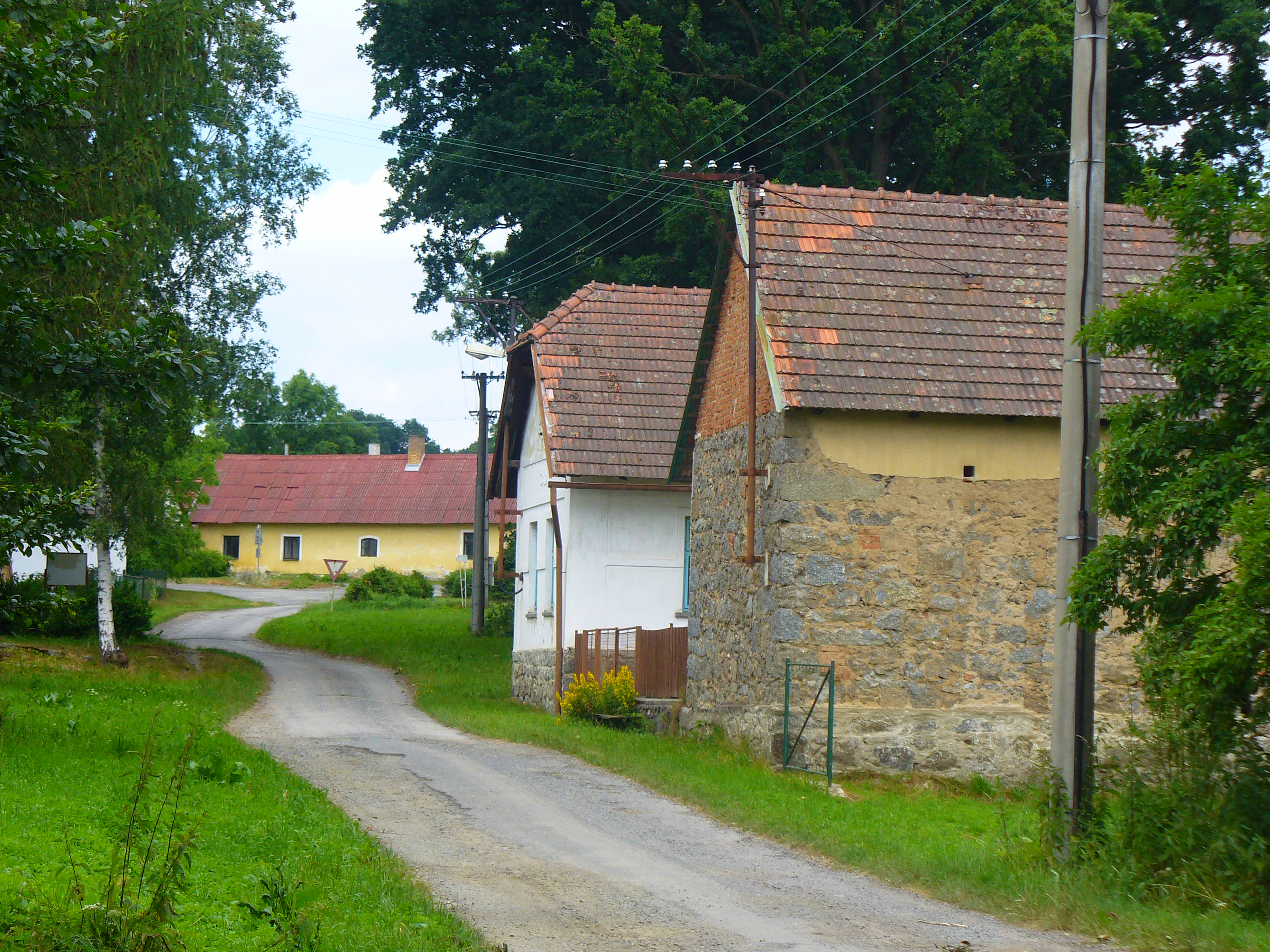 village Vepice